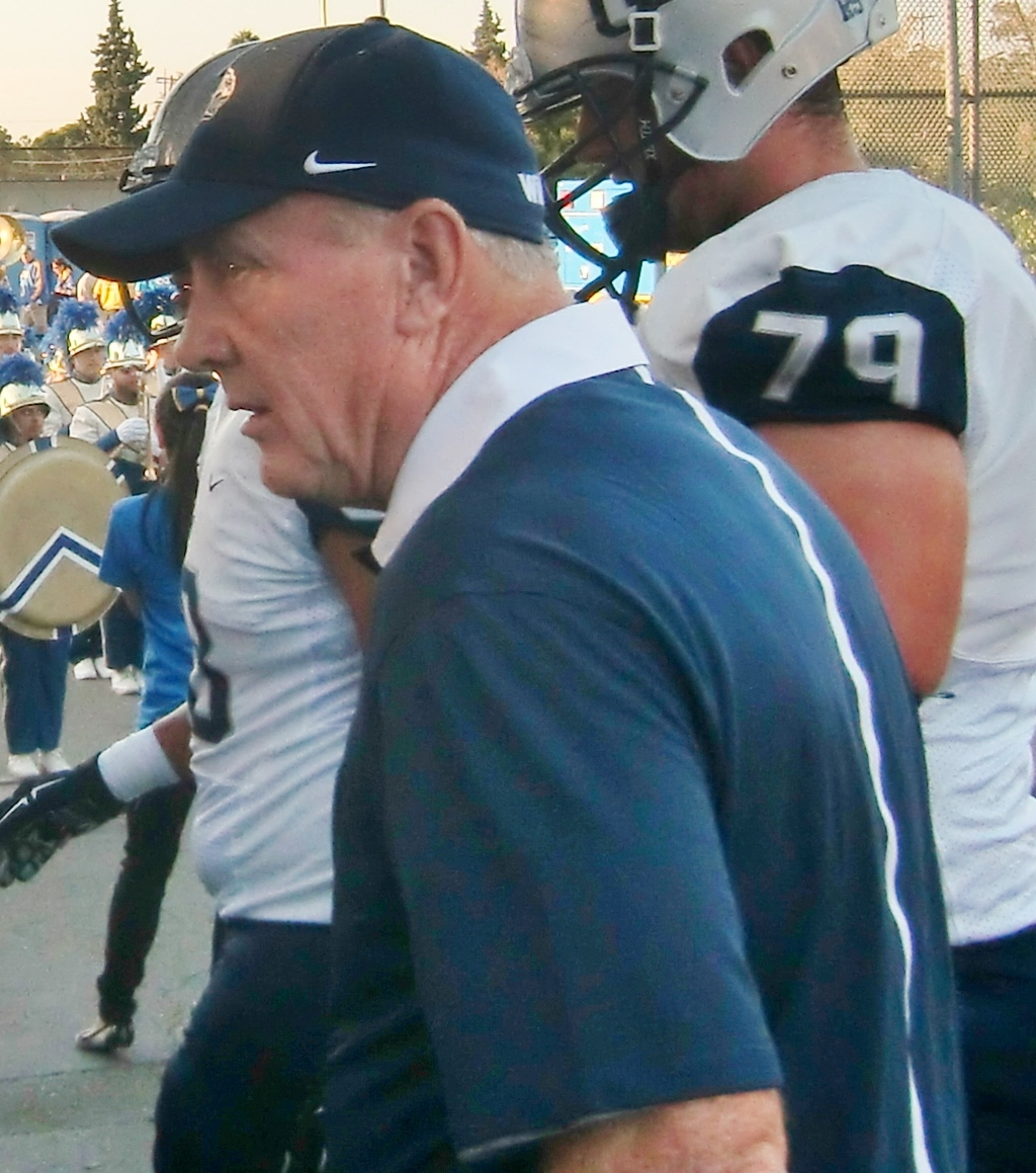 University of New Hampshire football coach Sean McDonnell before a game against San Jose State University in 2015 at Spartan Stadium in San Jose, Calif.